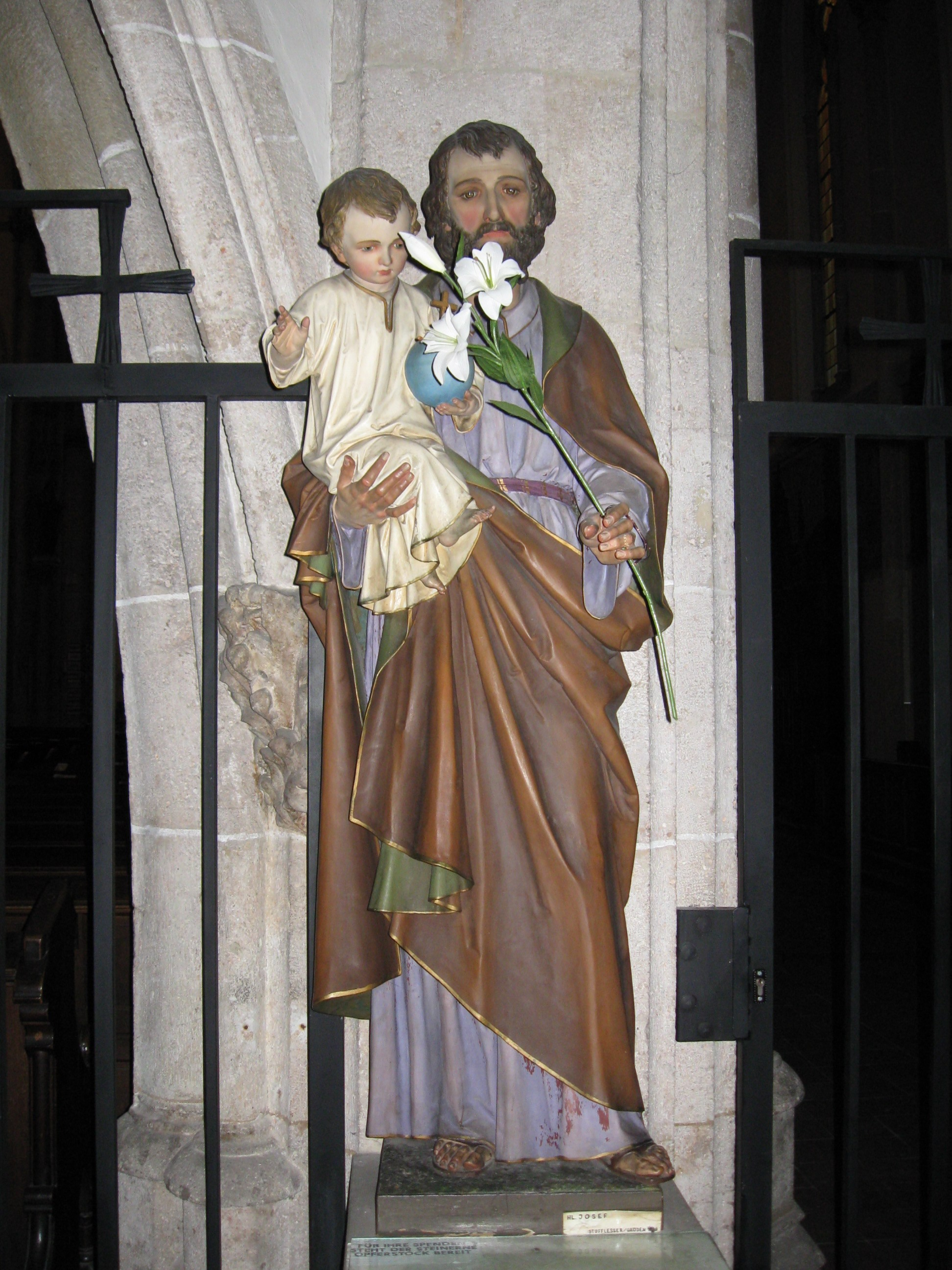 Statue of Saint Joseph, St. Othmar's church, Vienna